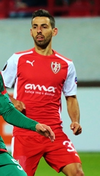 Kristi Vangjeli